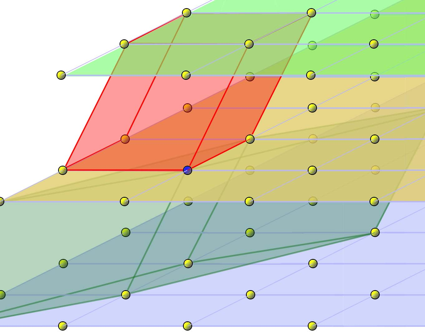 Property of the fundamental region, lattice (group).